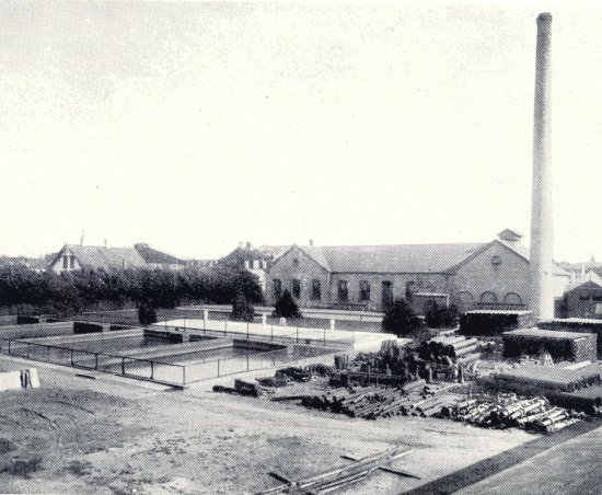 Gentofte's first waterworks at Mantziusvej . It was inaugurated on 1 July 1901.